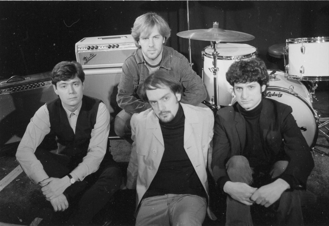 The Sneetches at the Paradise Lounge San Francisco 1989